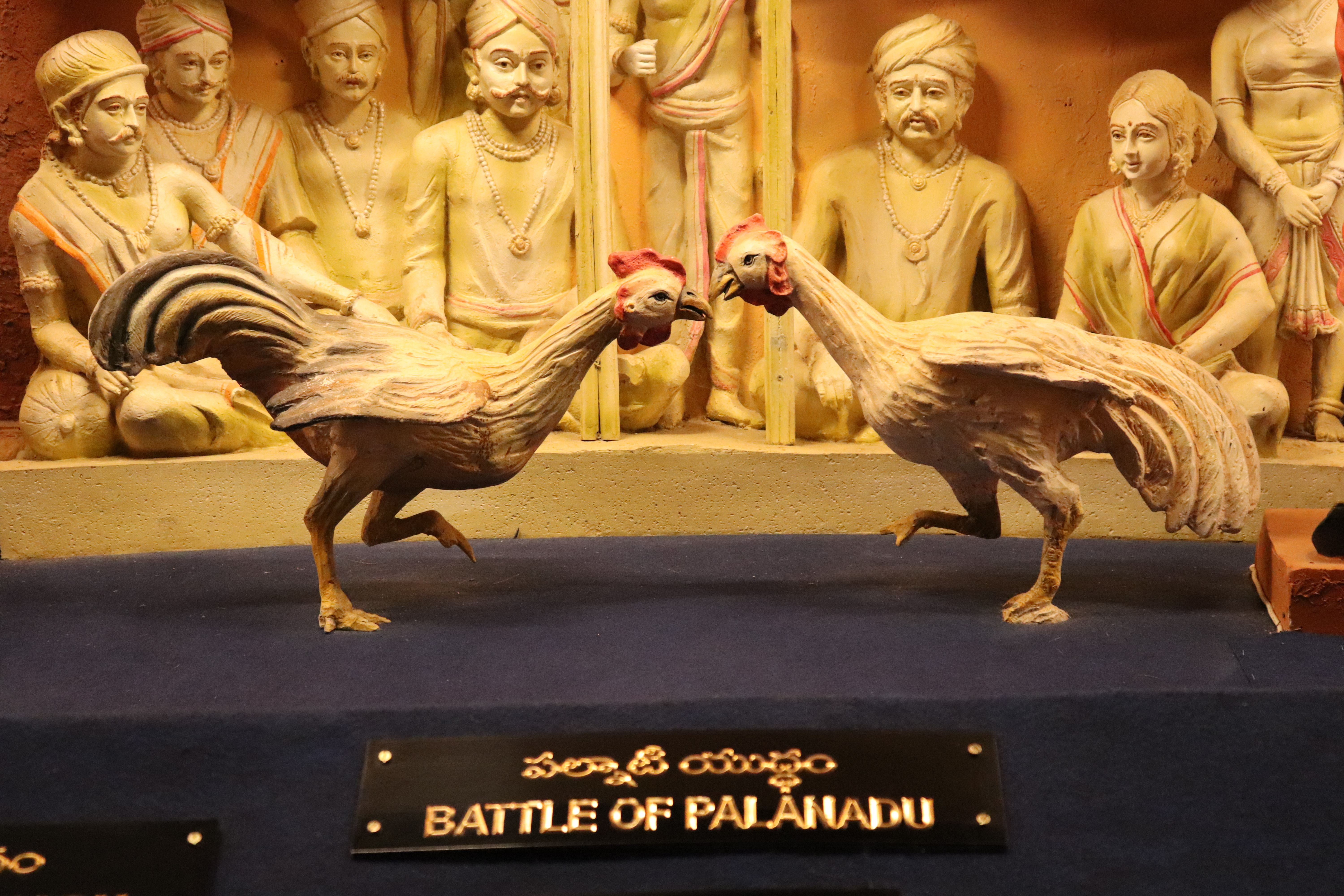 Battle of Palnadu: Fierce battle between Roosters in Palnadu Kingdom